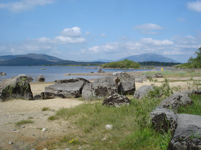 Lough Cullin Lough Cullin Co Mayo with the Nephin mountain range in the distance.